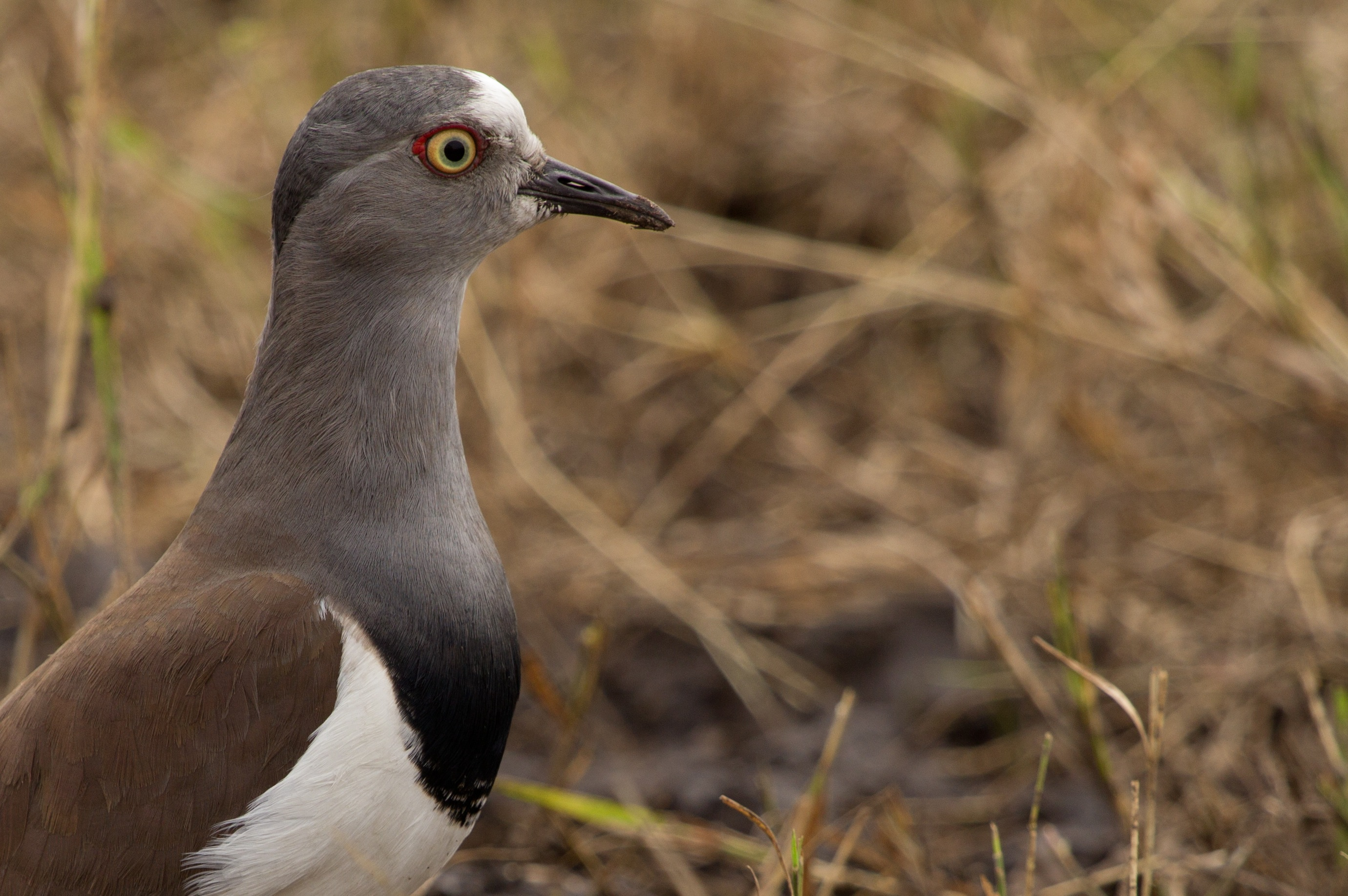 Individual at Maasai Mara, Kenya